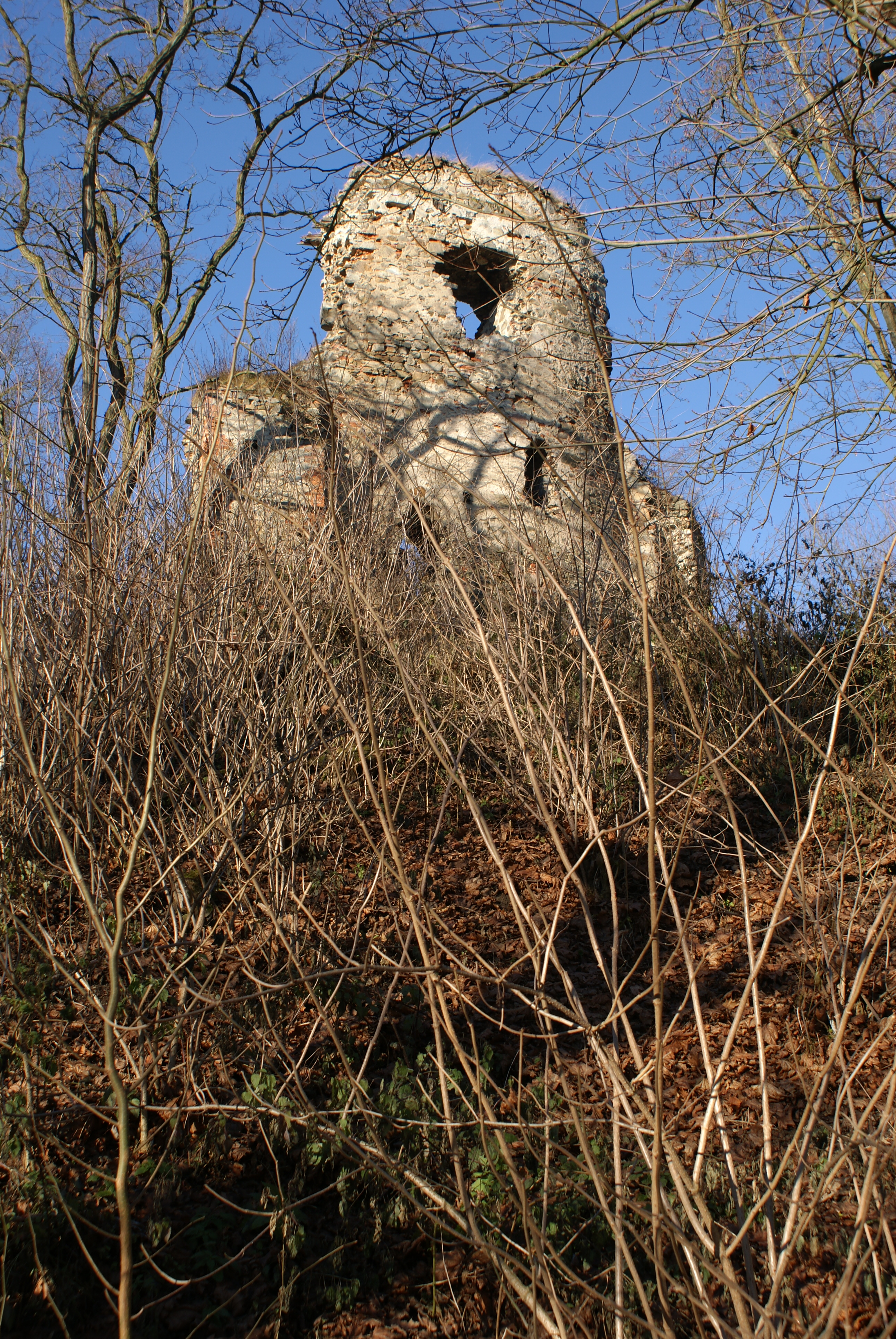 Střela castle ruin in Strakonice district, Czech Republic.